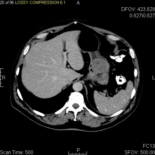 Axial contrast enhanced CT image of a gastrointestinal stromal tumor in the fundus of the stomach